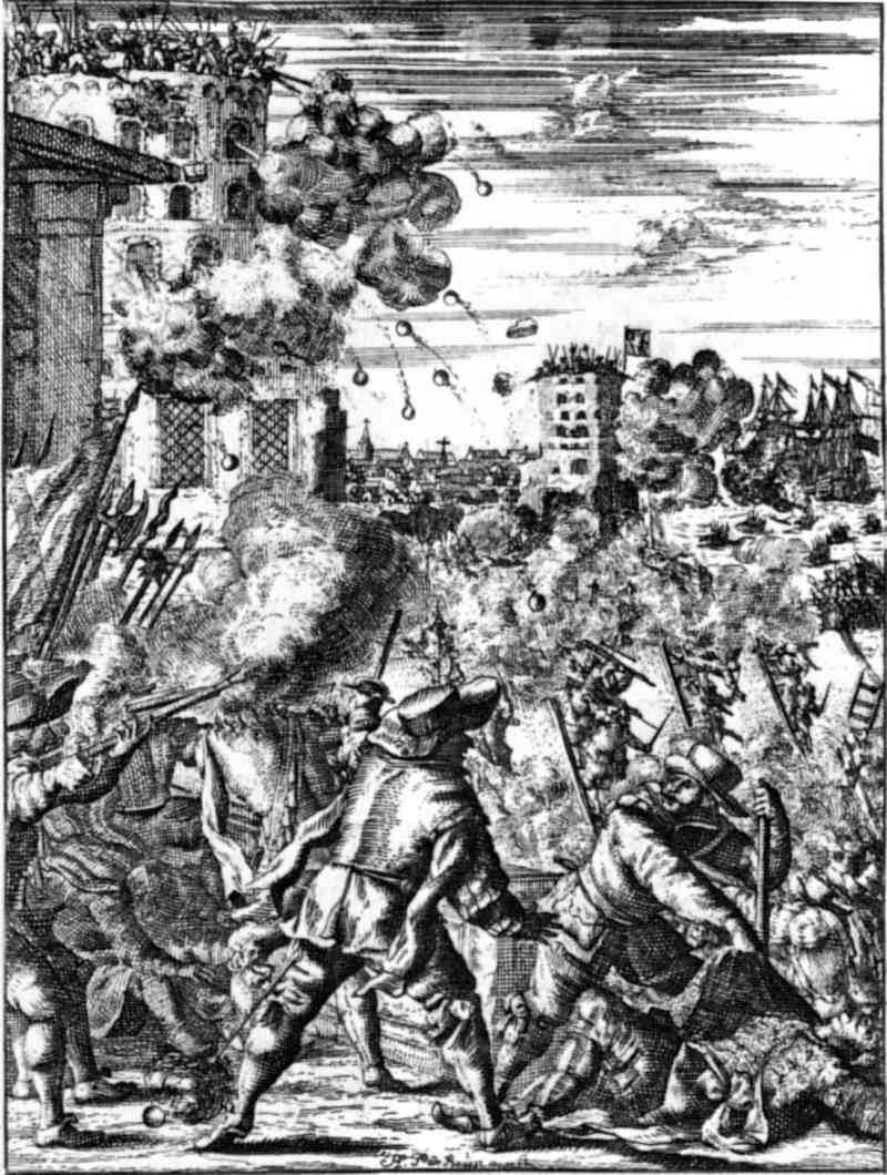 Henry Morgan's attack on the Castillo de San Jeronimo, Porto Bello, 1669